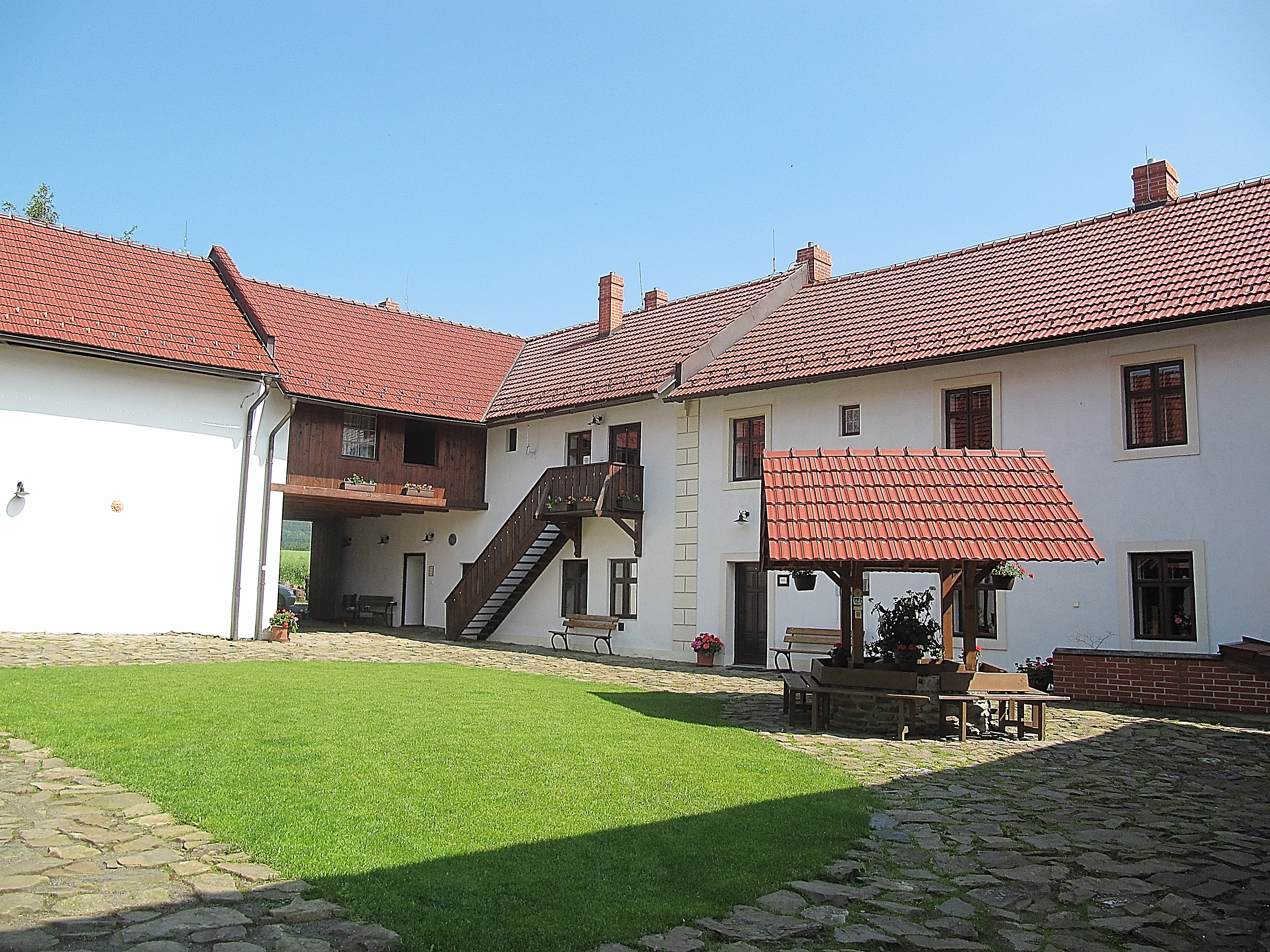 Vražné, Nový Jičín District, Czech Republic, part Hynčice. Birthplace of Gregor Mendel.